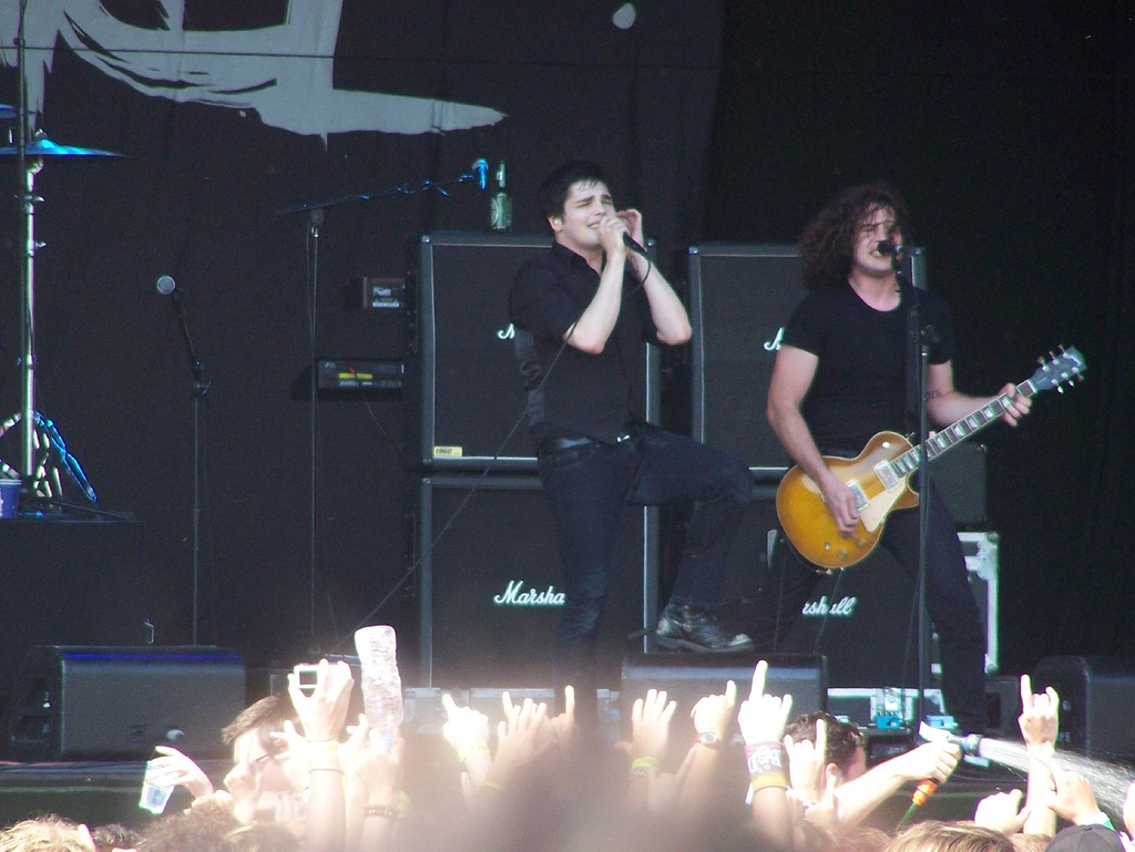 United States rock band My Chemical Romance performing at the Big Day Out music festival at Claremont showgrounds in Perth, Australia.